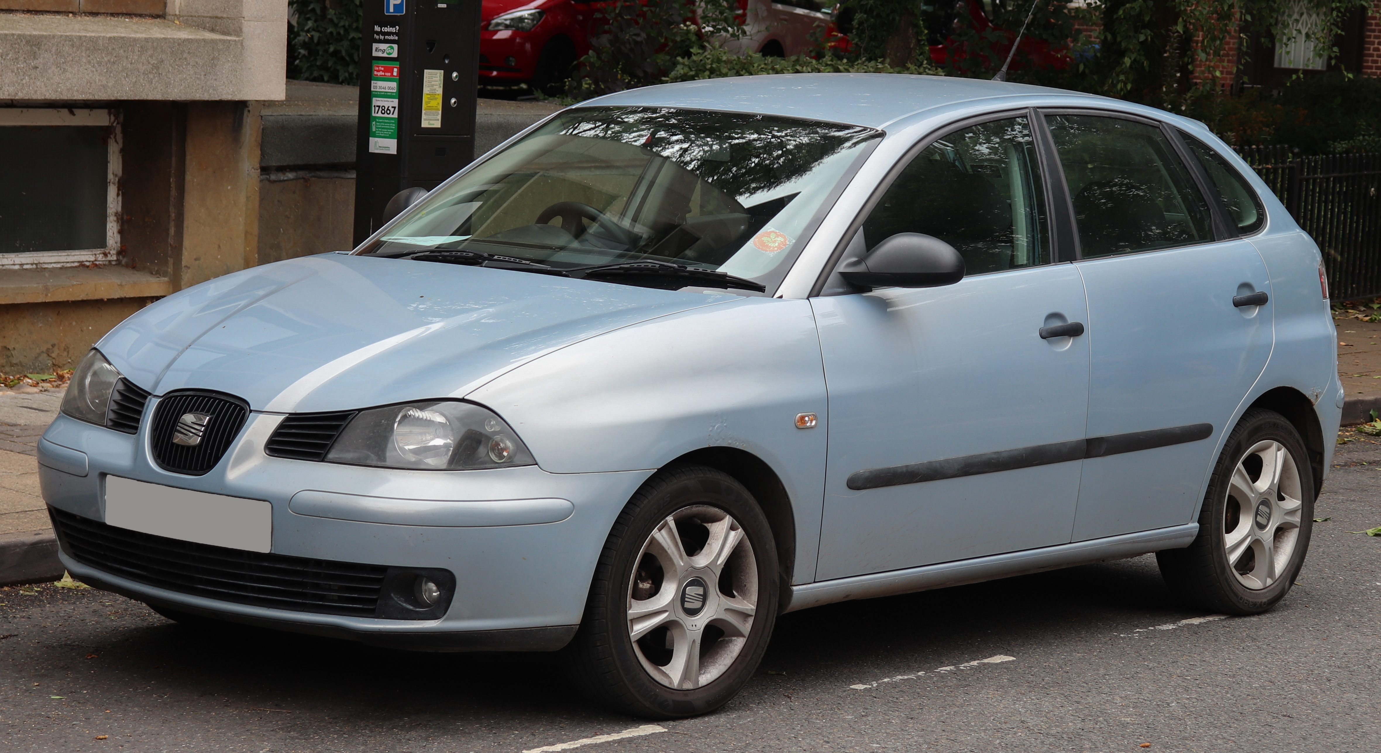 2004 SEAT Ibiza SX 1.2 Front Taken in Warwick